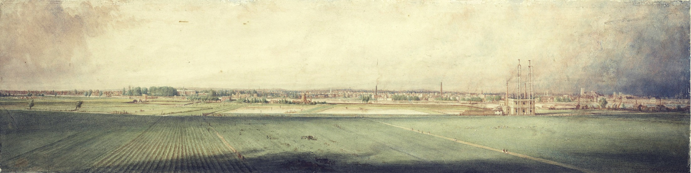 Watercolour image by Robert Westall, painted in 1848, of Battersea Fields in London, United Kingdom. This view appears to be from the area known as Lavender Hill, and shows the open farmland and (possibly) lavender cultivation that existed here before the industrial era. The Royal Hospital Chelsea and (in the foreground) Battersea Pumping Station (which was built eight years previously in 1840) are both visible. This was painted shortly before railways were developed and the area became extensively urbanised. The date and artist are known, however the original title of the painting is uncertain. Robert Westall is known to have exhibited a painting 'London from Pavilion Place, Battersea Fields' - possibly this painting - at the Royal Academy Exhibition in 1849. The original painting is part of the collection of the Museum of London, and this faithful photograph of the original painting (of which there are several similar versions online) is believed to have also been taken by the Museum of London.